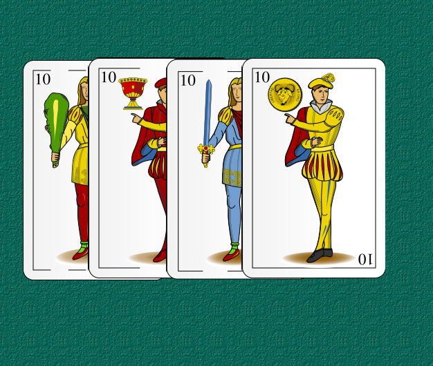 The four knaves or sotas in the Spanish deck of cards